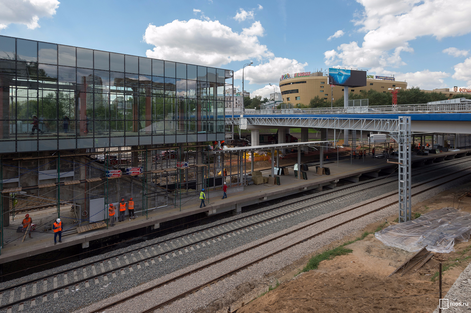 Building and platform, Sevastopol Prospect, Yuzhny Administrative Okrug, Moscow (August 2016).